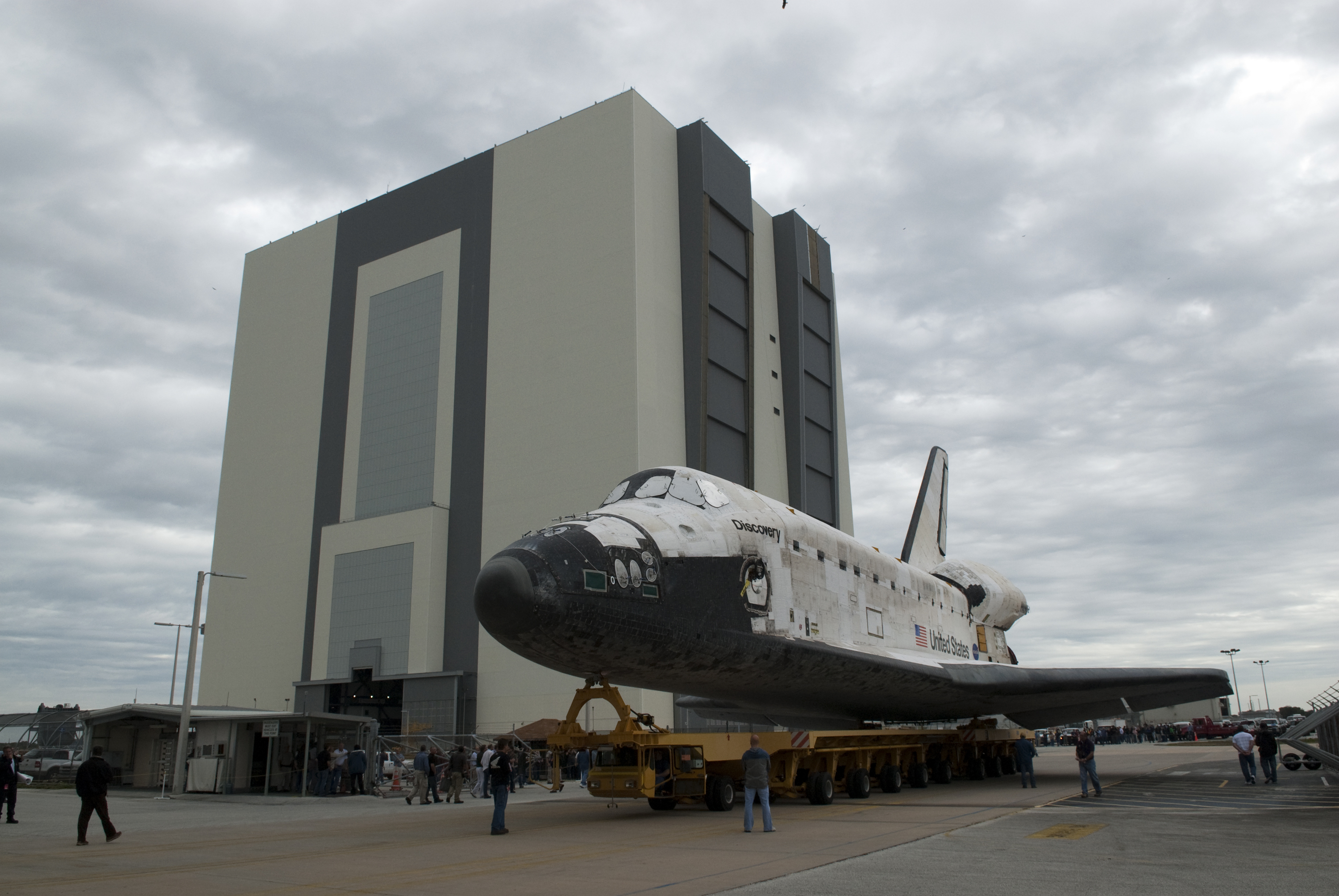 At NASA's Kennedy Space Center in Florida, space shuttle Discovery rolls toward the Vehicle Assembly Building, or VAB. In the VAB, Discovery will be lifted into a high bay where it will be mated to its external tank and solid rocket boosters. The seven-member STS-131 crew will deliver the Multi-Purpose Logistics Module Leonardo, filled with resupply stowage platforms and racks, to the International Space Station aboard space shuttle Discovery. Work to attach a spare ammonia tank assembly to the station's exterior and return a European experiment from outside the station's Columbus module will be conducted during three spacewalks. STS-131, targeted for launch on April 5, will be the 33rd shuttle mission to the station and the 131st shuttle mission overall.